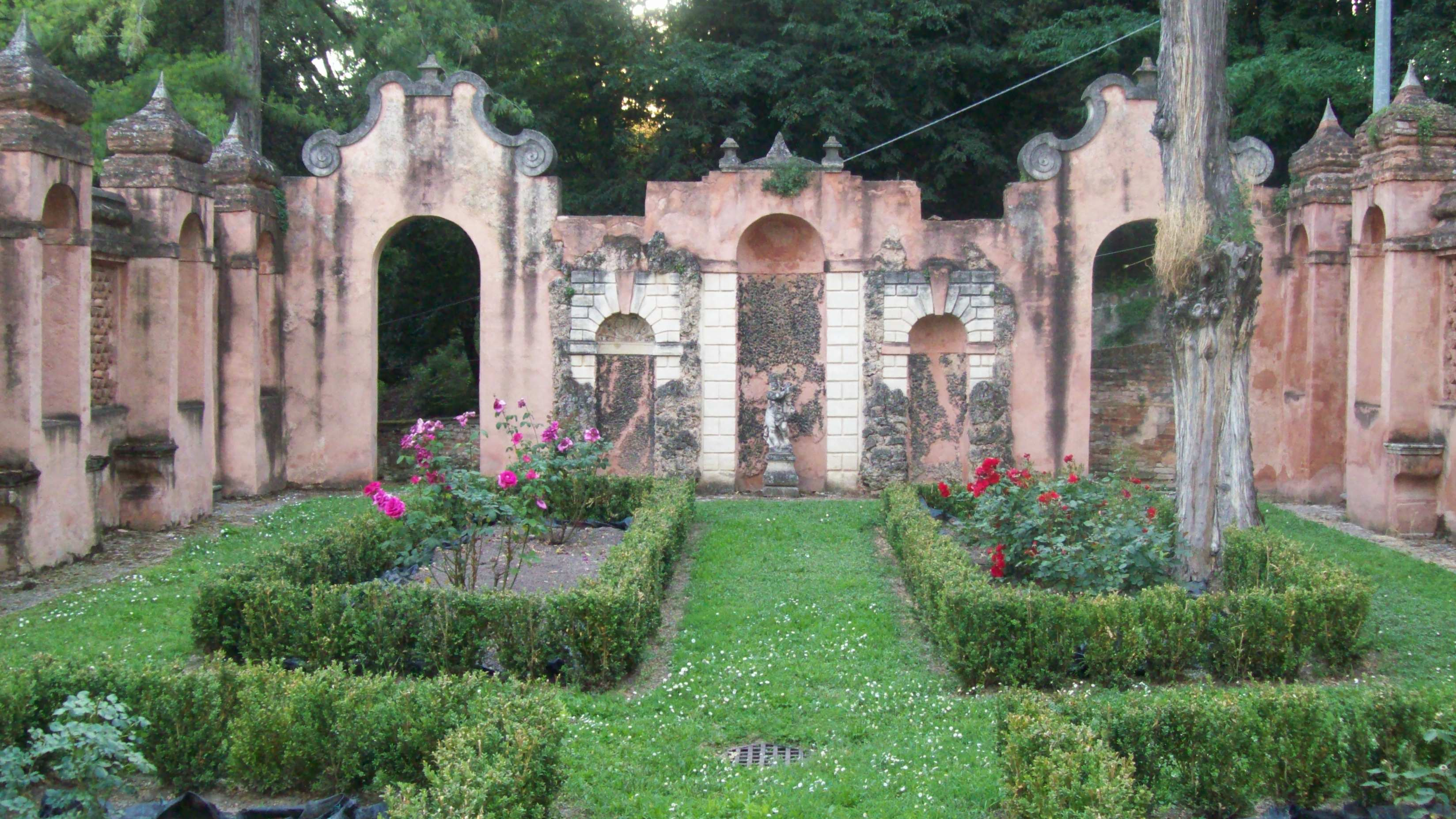 The Orto Segreto (Secret Garden)